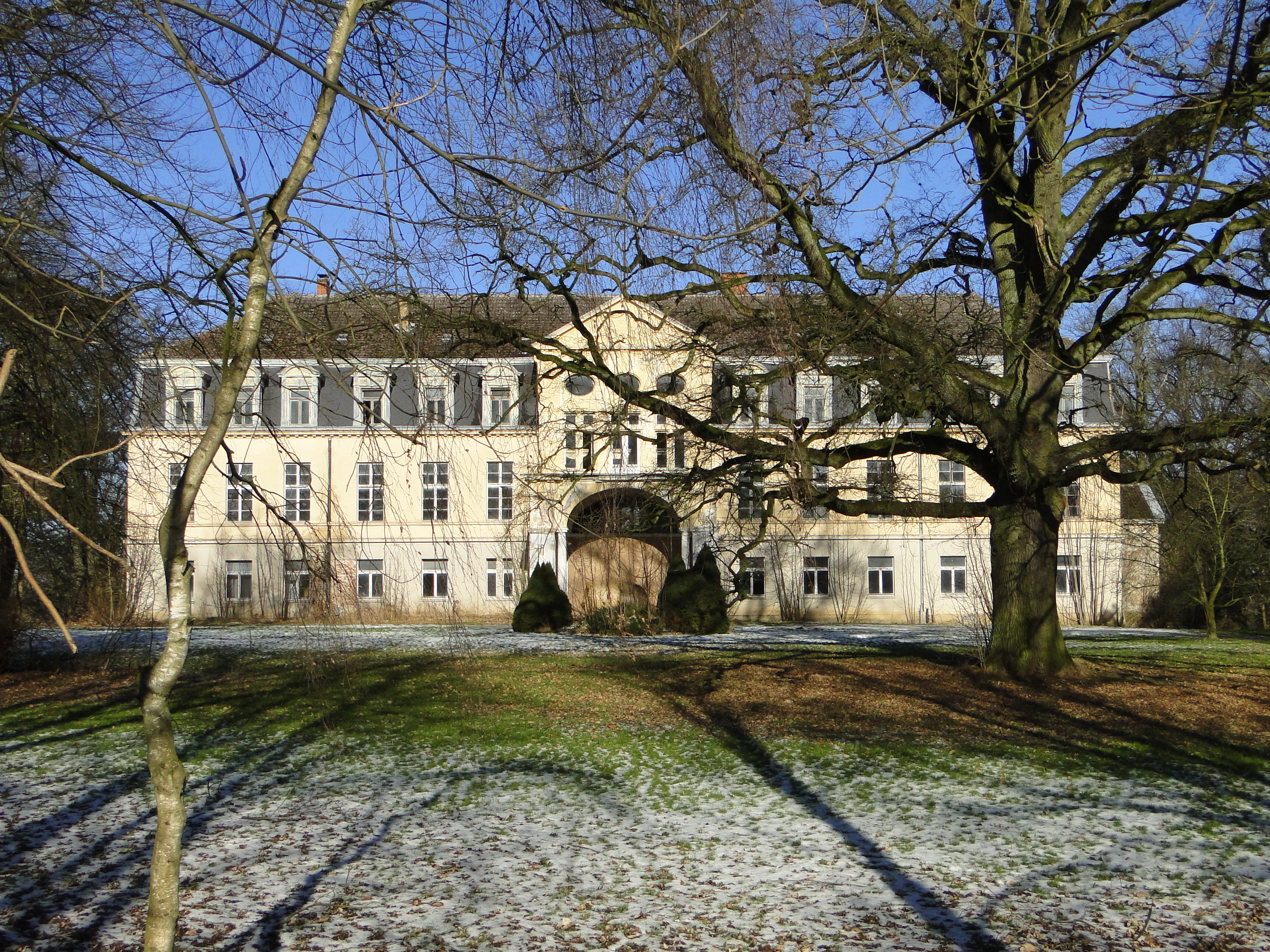 Manor house in/near Grambow, district Nordwestmecklenburg, Mecklenburg-Vorpommern, Germany